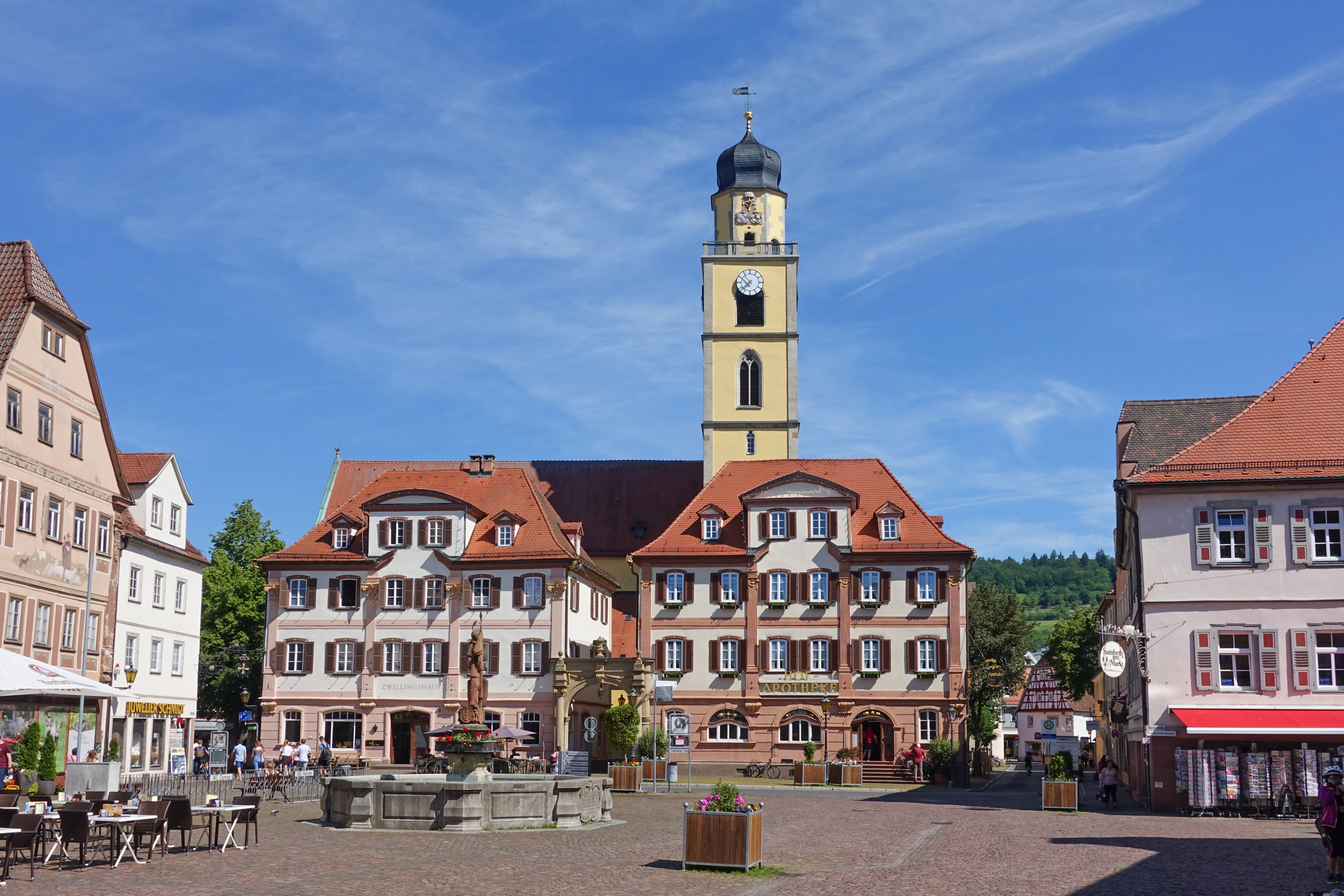 Market place, Bad Mergentheim, Germany, with twin houses and Münster St. Johannes (St. John's Church)